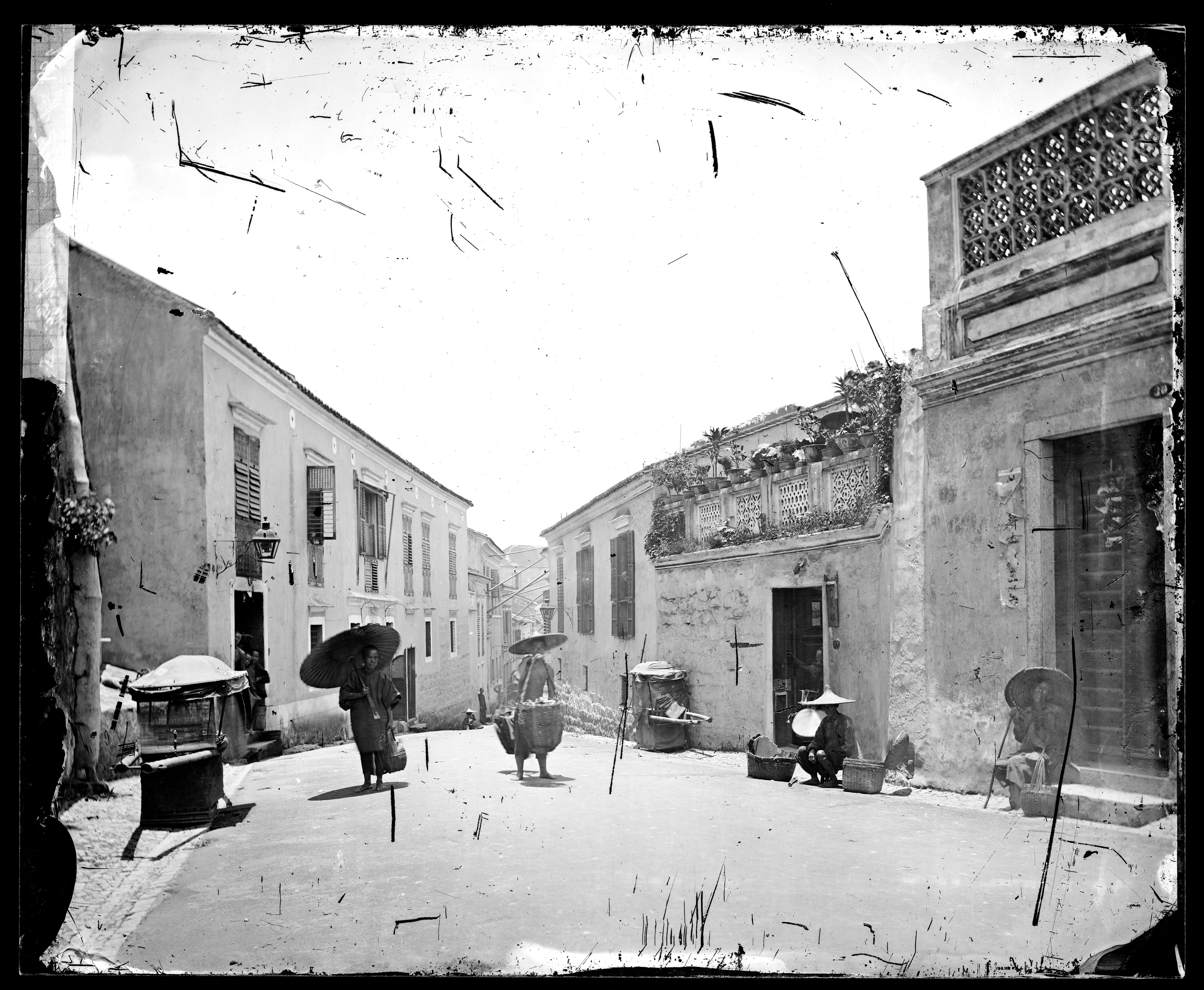 A street (Rua de São Paulo) in Macao, China. Photograph by John Thomson, 1870 Iconographic Collections Keywords: J. Thomson